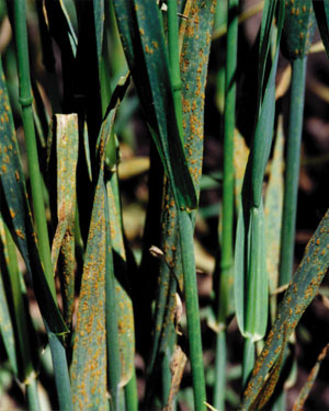 Puccinia coronata on oat, causing oat crown rust.